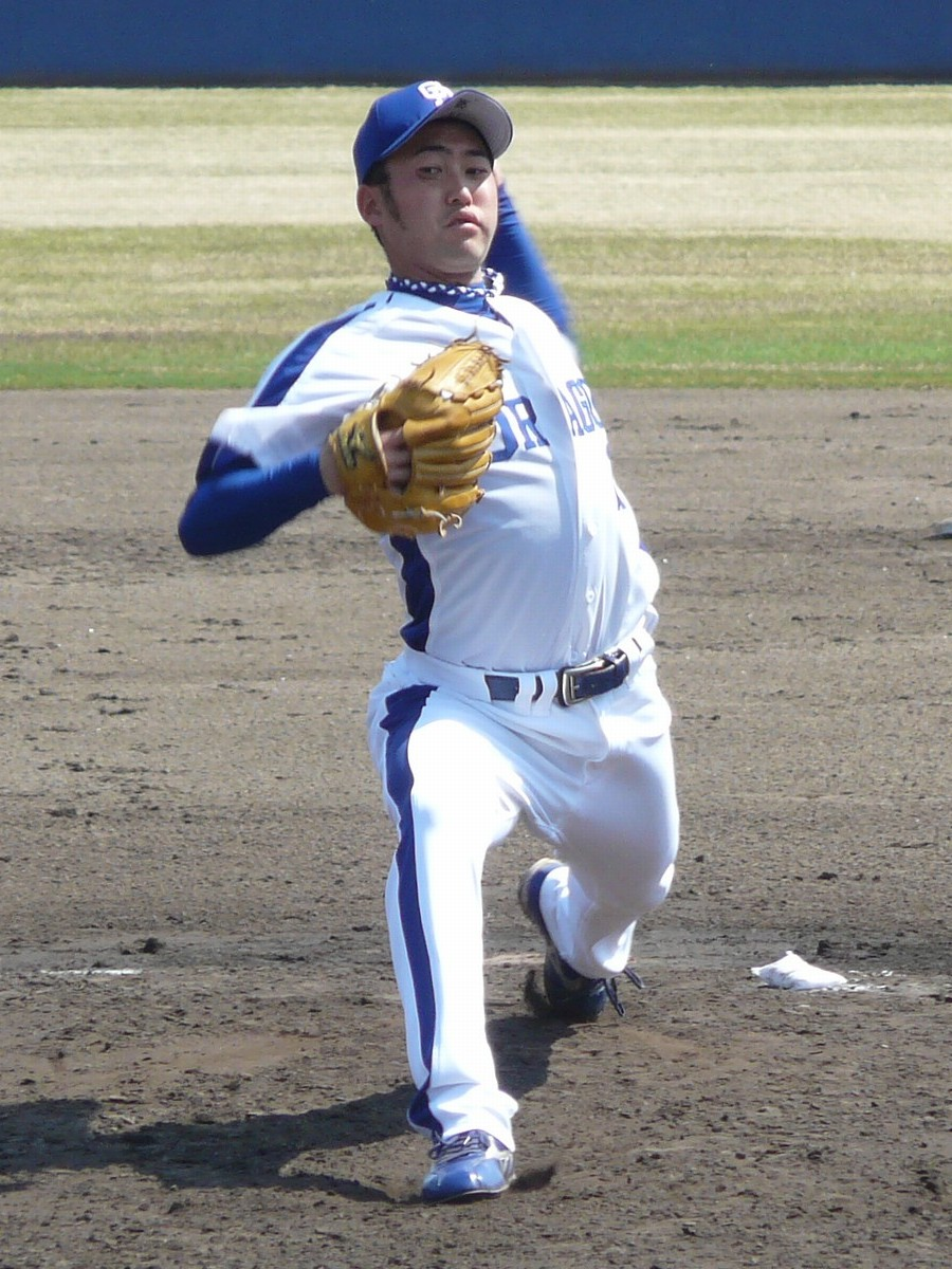 Chunichi Dragons/Susumu kawai